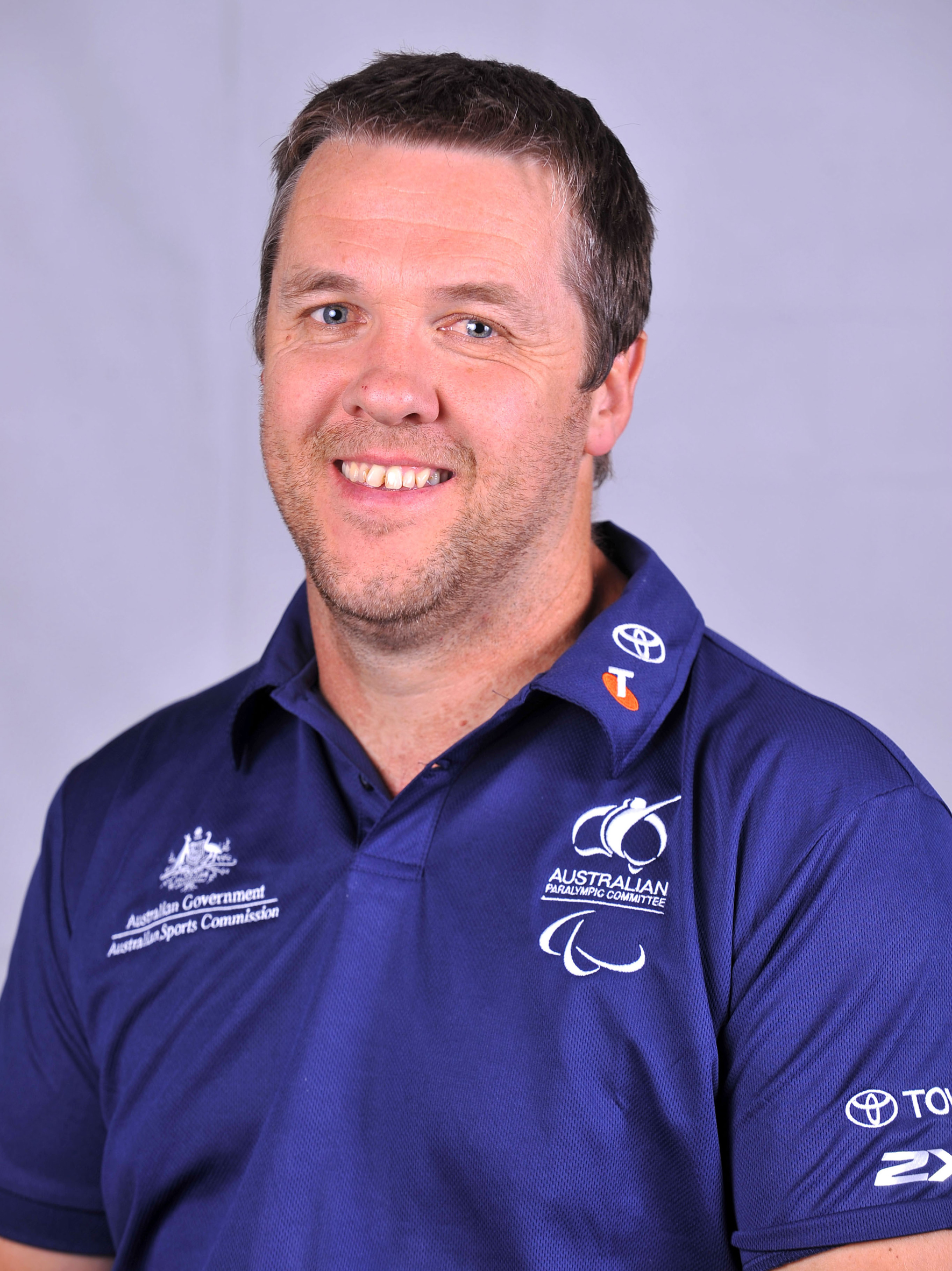 Portrait of Australian wheelchair rugby player Greg Smith, 2012 Australian Paralympic (shadow) Team athlete